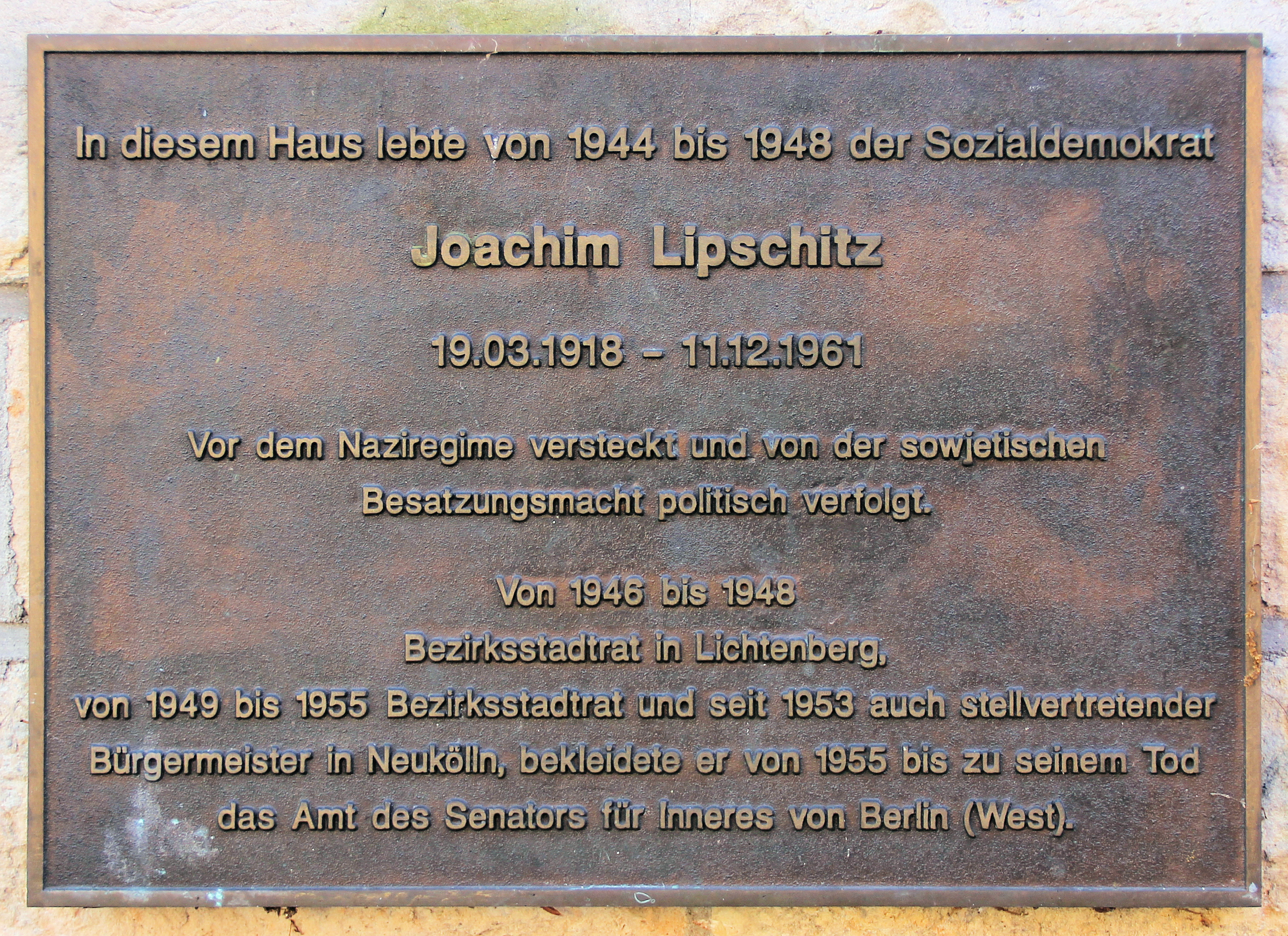 Memorial plaque, Joachim Lipschitz, Stühlinger Straße 15, Berlin-Karlshorst, Germany Koordinate:52°28′46″N 13°31′11″E / 52.47944°N 13.51972°E